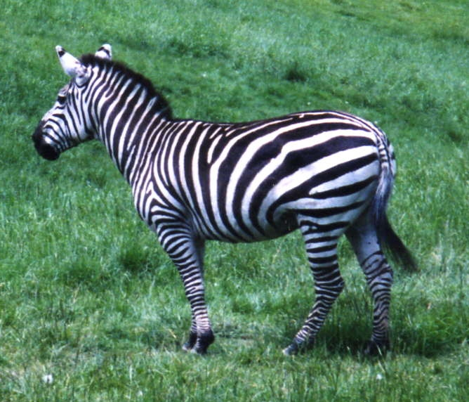 Grants Zebra